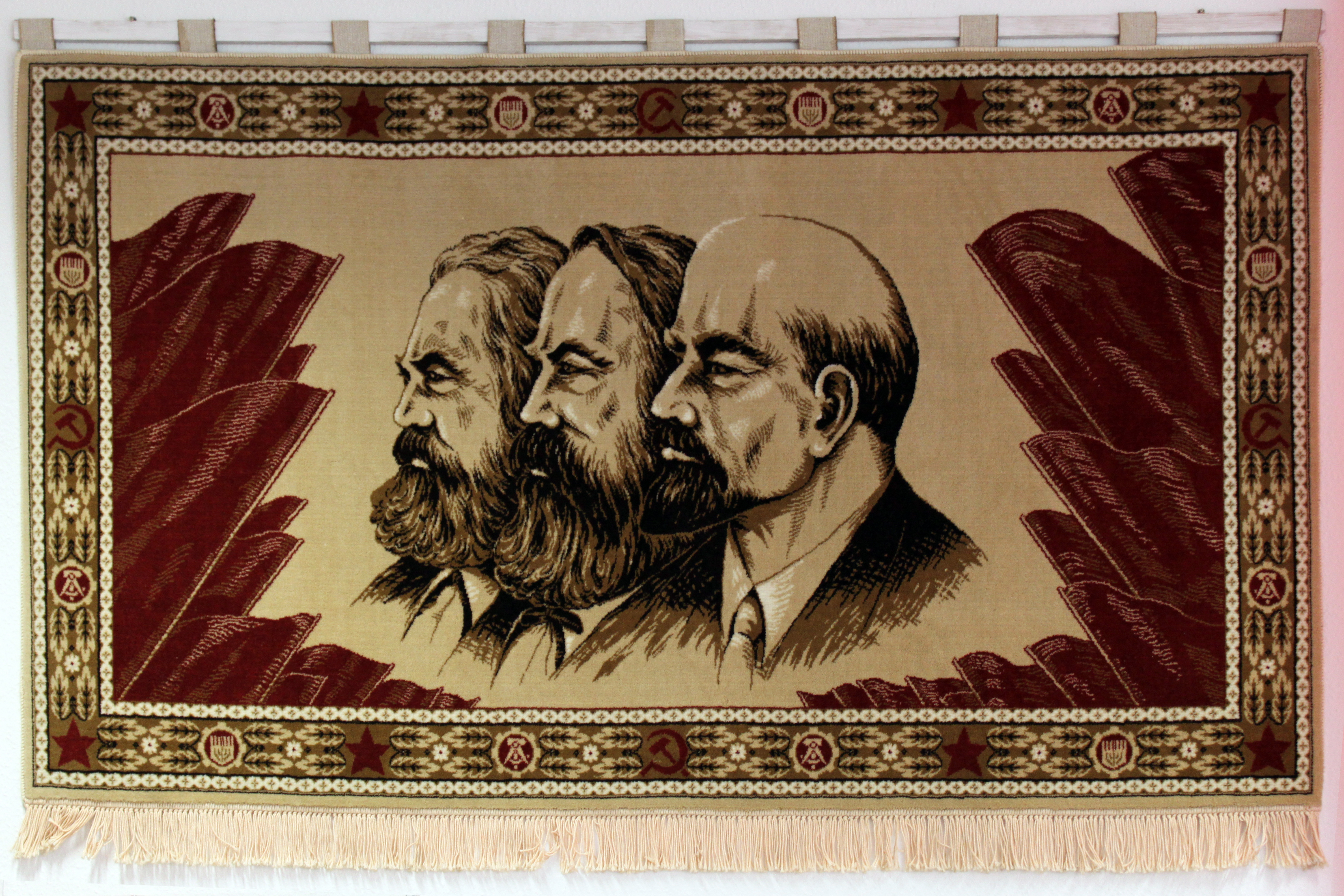 Tapestry with Friedrich Engels, Karl Marx and Lenin, shown in the Stasi Museum in Berlin